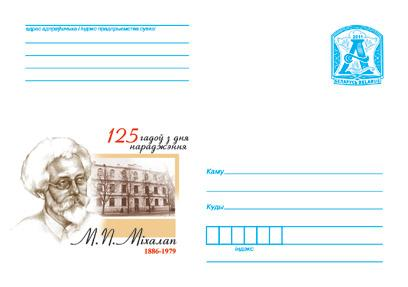 художественный маркированный конверт с литерной маркой «А»,посвященный 125-й годовщине дня рождения Н. П. Михолапа. , художник - Анна Старовойтова, Заказ конверта № 9843-2011. Тираж конверта 30 тыс. Спецгашение проходило 28 апреля 2011 года специальным памятным штемпелем на Минском Главпочтамте.